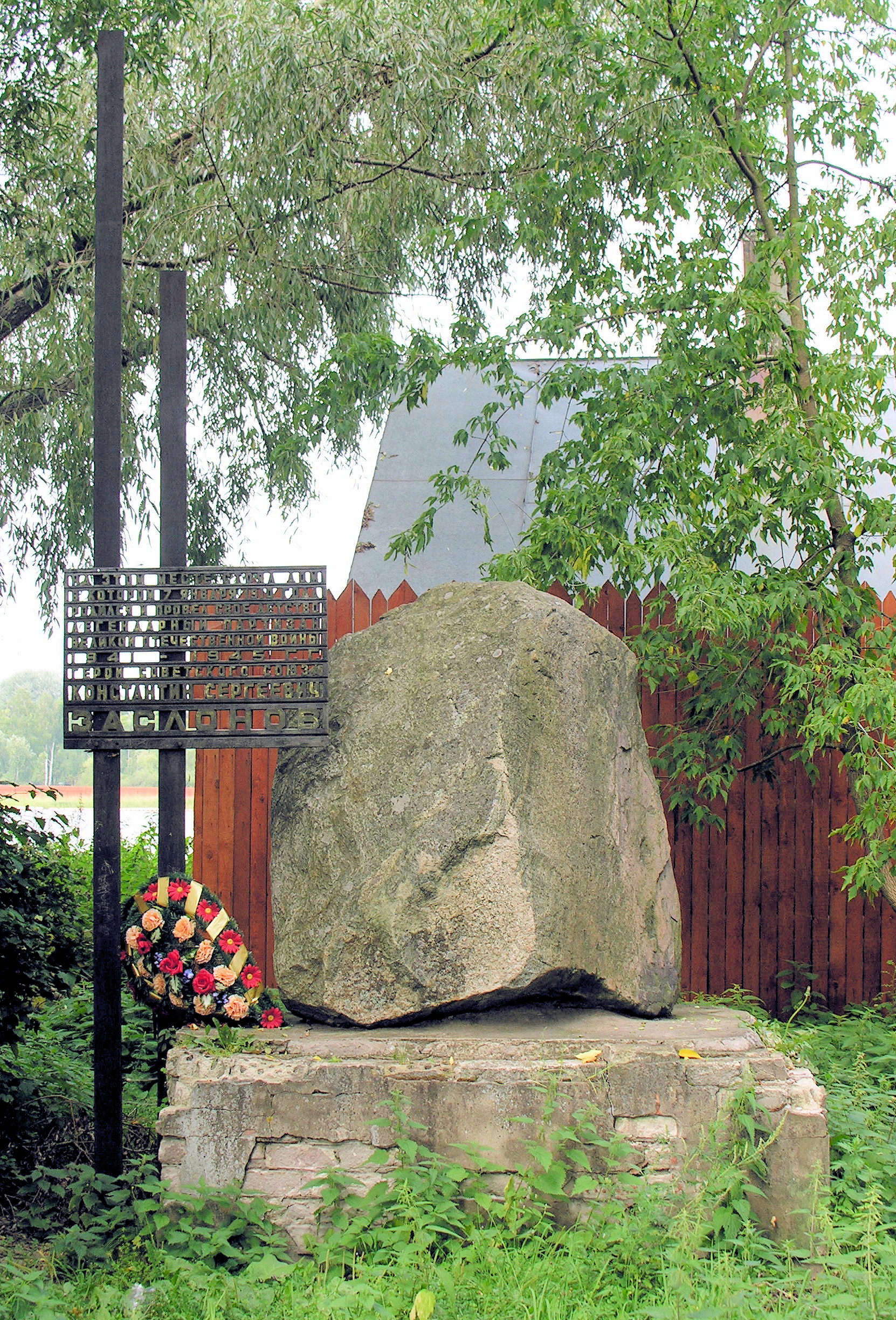 House of Zaslonov Konstantin Sergeevich